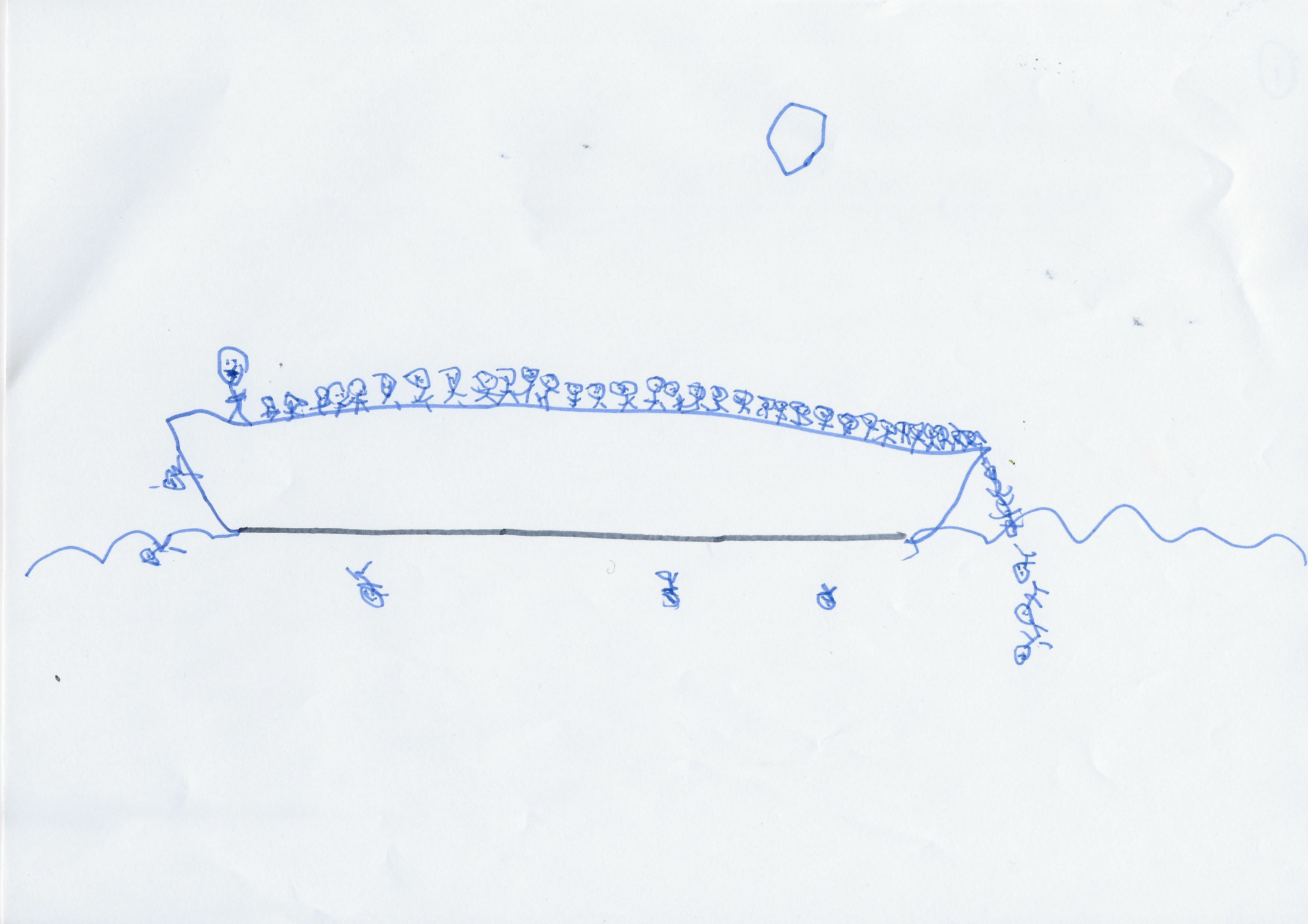 Refugee Drawing Title : Yesterday. By a 18 years old Syrian Boy. Currently living in Kara Tepe Refugee Camp, Lesbos Island, Greece. Other Info : This drawing depicts this boy's horrific boat journey to arrive in europe.